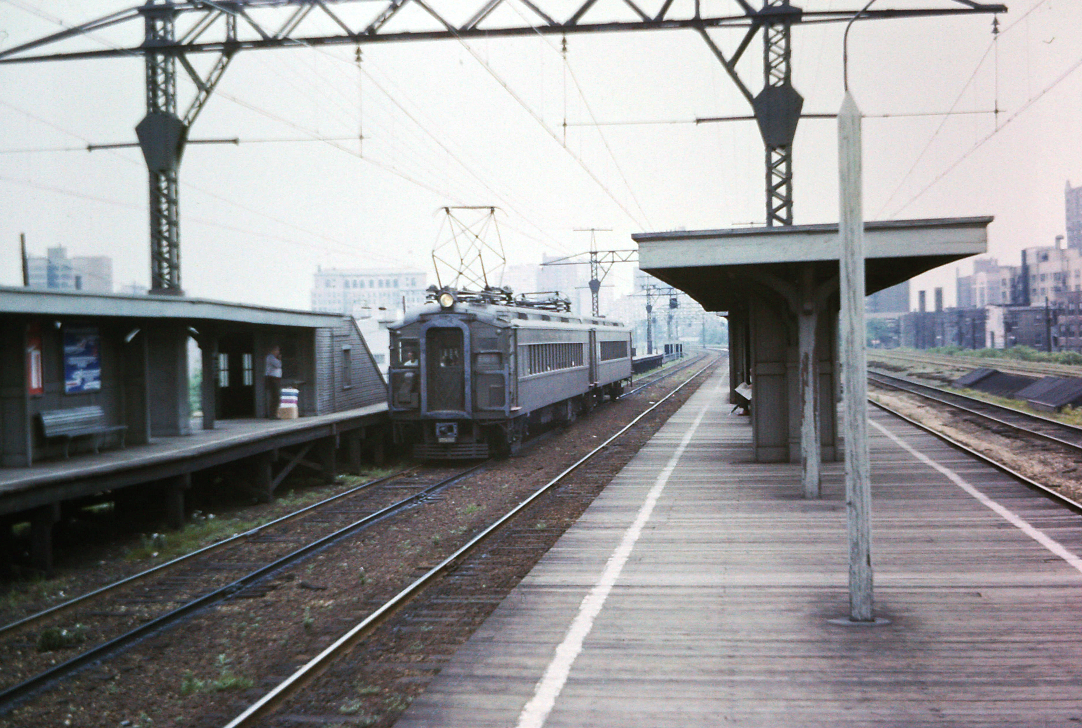 An Illinois Central commuter train at 63rd Street and Woodlawn Station in Chicago, Illinois.